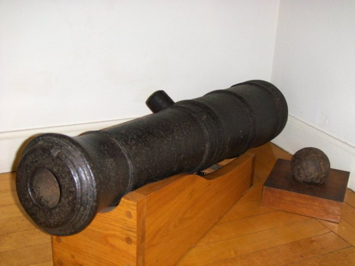 Old Toby at the Old Colony Historical Society Taunton Massachusetts